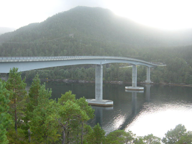 The bridge Mjosundbrua in Norway